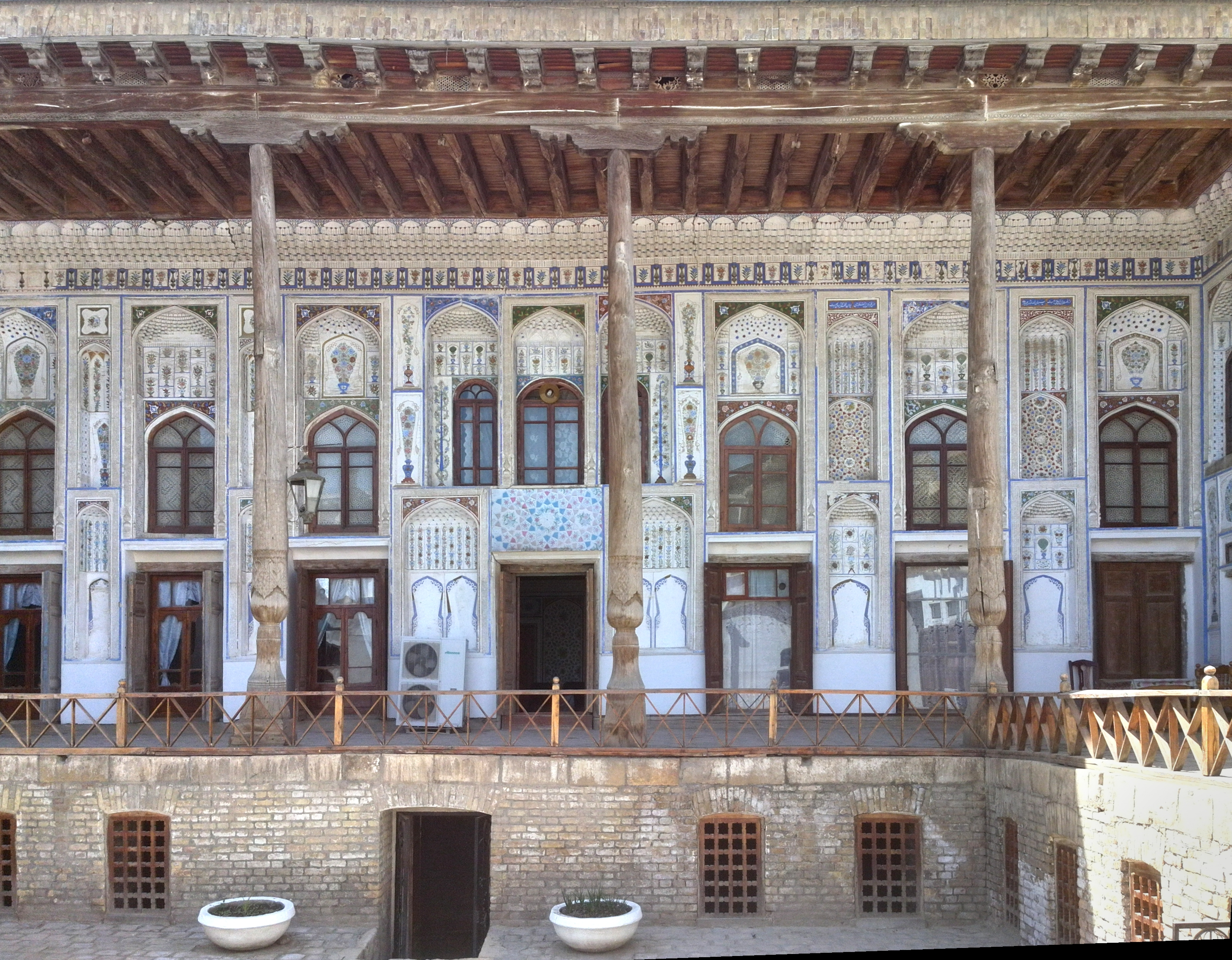 House occupied by Fayzullo Xojayev in 1920s, now a museum in Bukhara